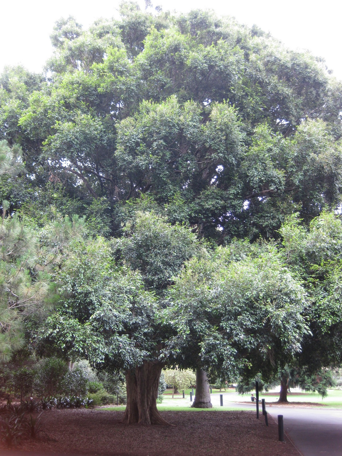 Photographed at the Royal Botanic Gardens Sydney (Australia) in January